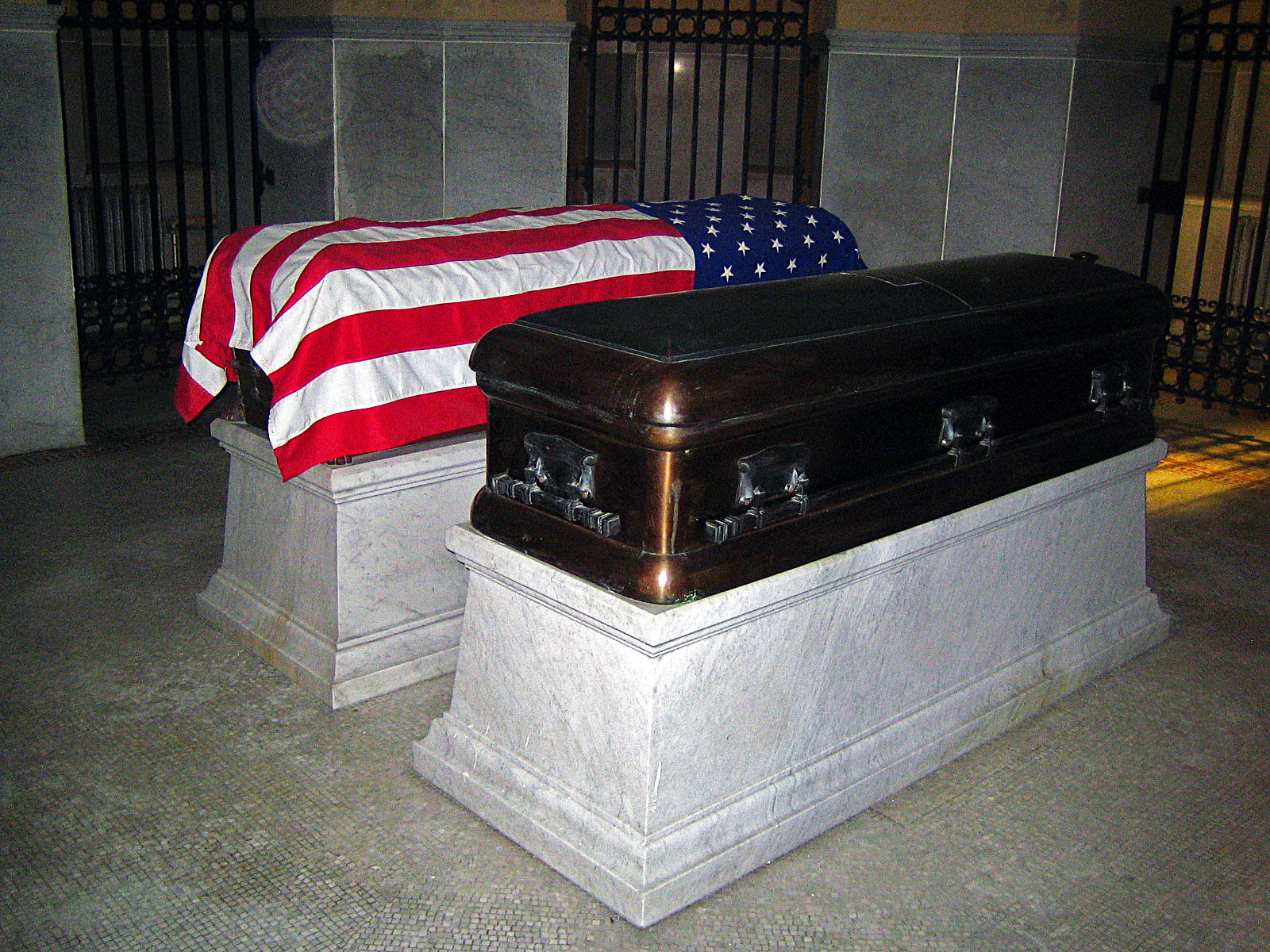 President James A. Garfield and Lucretia Garfield are interred in the crypt of the Garfield Monument in Cleveland's Lake View Cemetery.